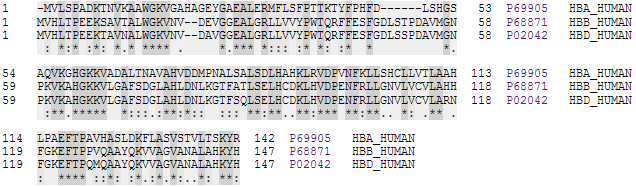 An alignment of human hemoglobin alpha, beta, and delta from Uniprot.